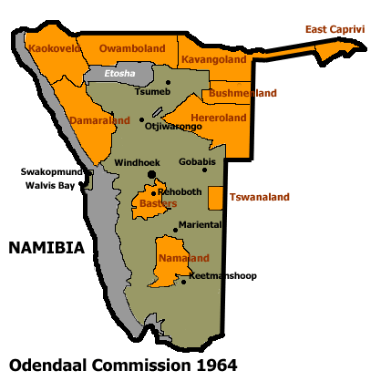 This map shows the Odendaal Commission Plan for Namibia of 1964. The plan divided Namibia into Bantustans or Homelands.